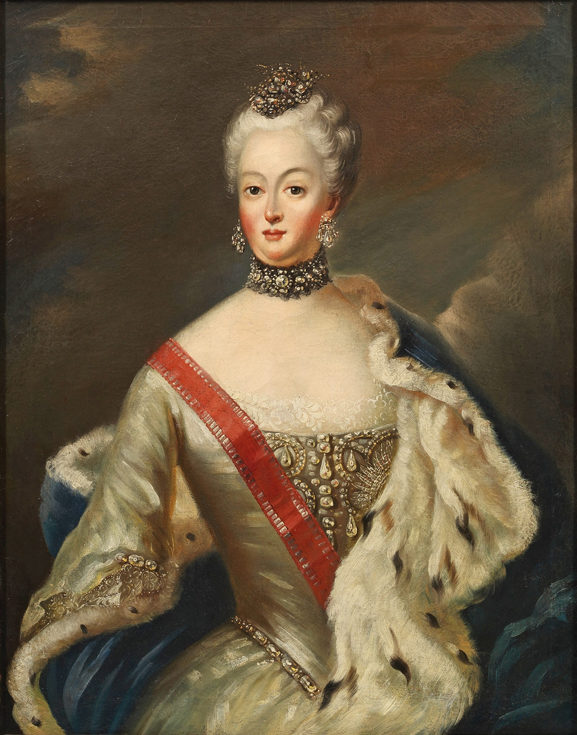 Portrait of a Bavarian princess. Presumed portrait of Duchess Maria Antonia of Bavaria (1724-1780), or her sister Maria Josepha of Bavaria (1739-1767, from 1765 Empress)